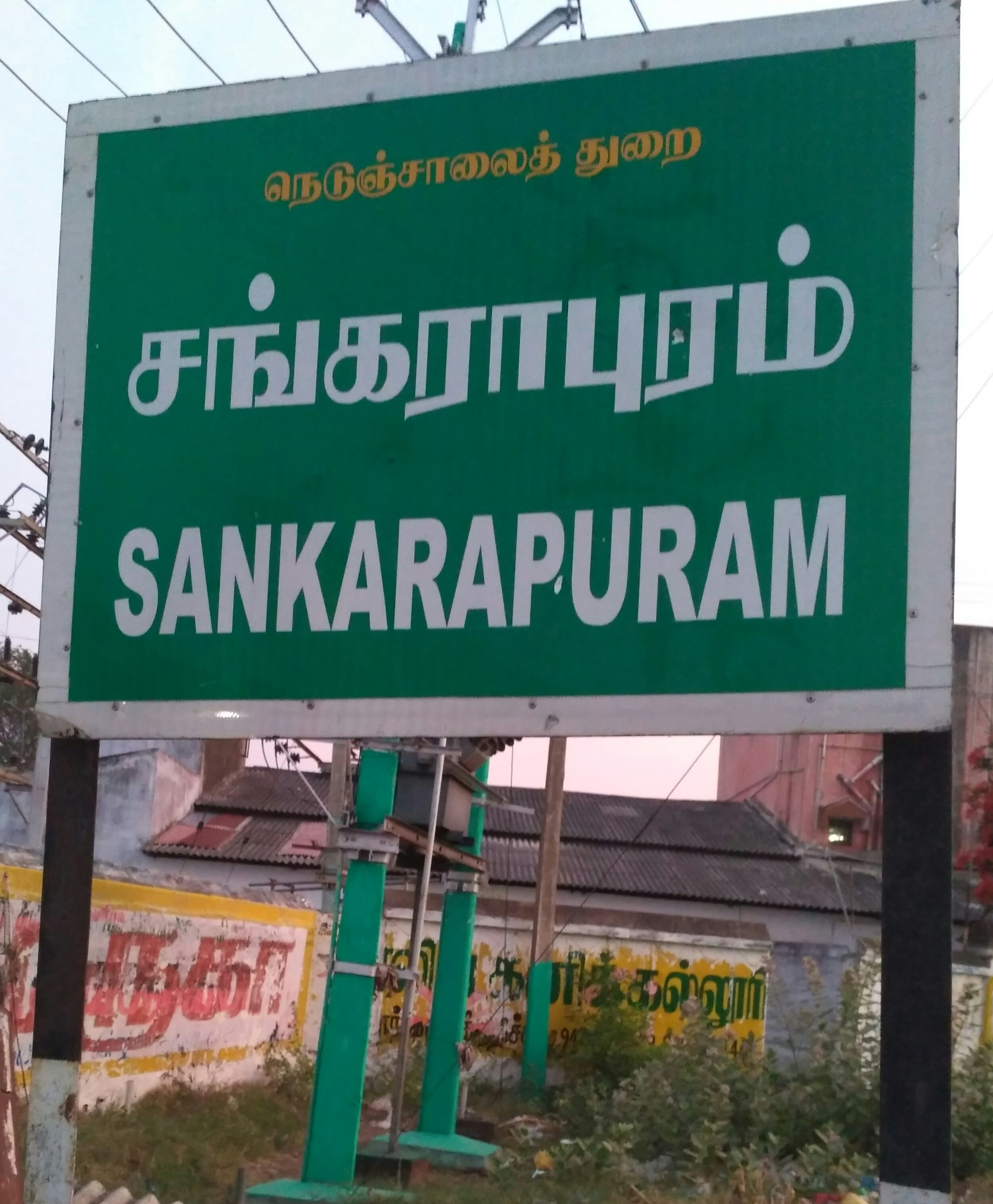 welcome to sankarapuram